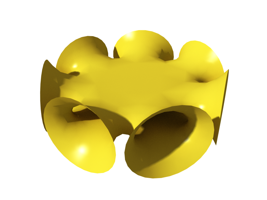 Renderinf of the 7-noid minimal surface. It has seven catenoidal ends and is topologically equivalent to a sphere with seven points removed along the equatorial plane.